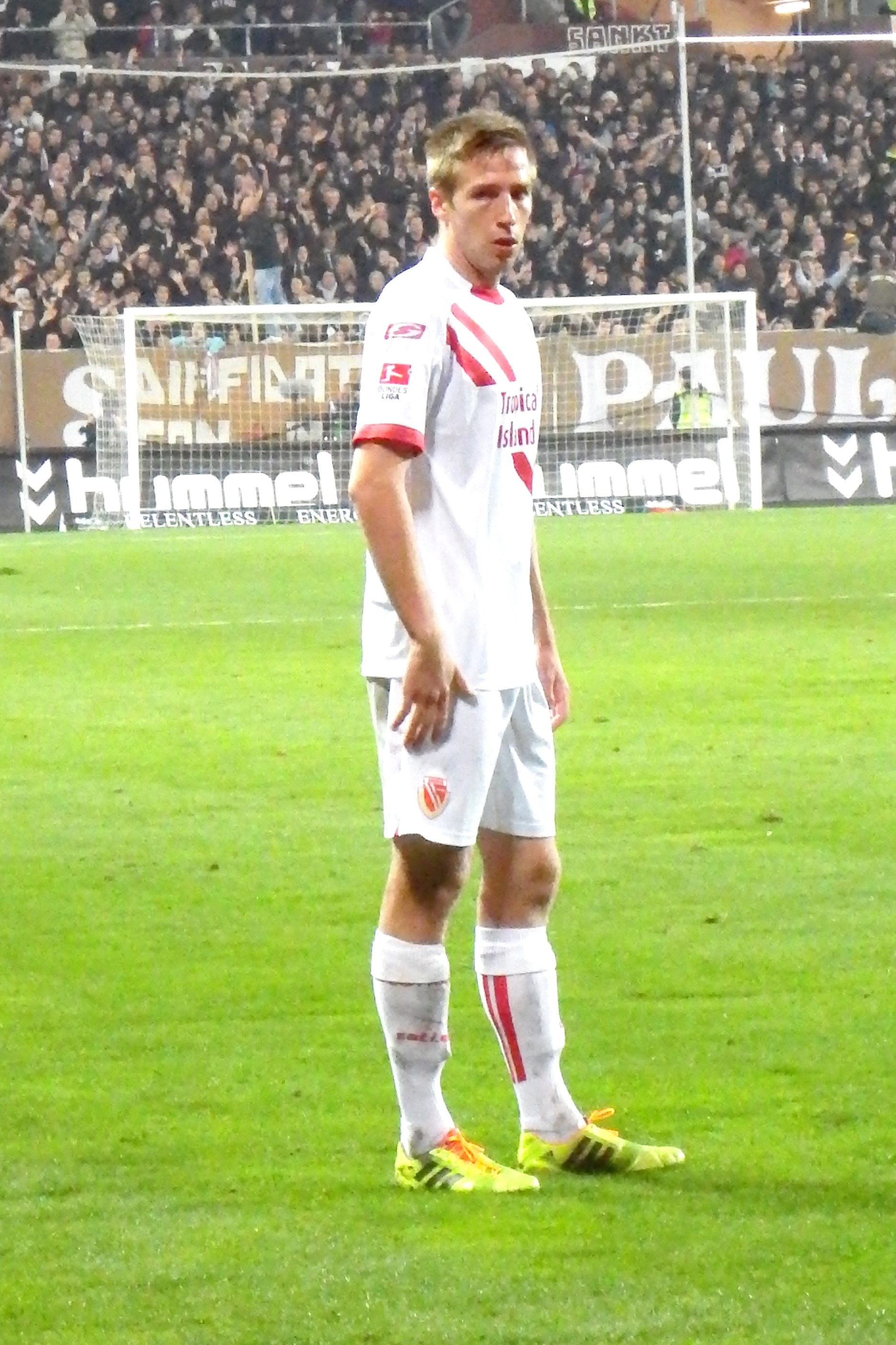 Mario Stiepermann as Player of Energie Cottbus